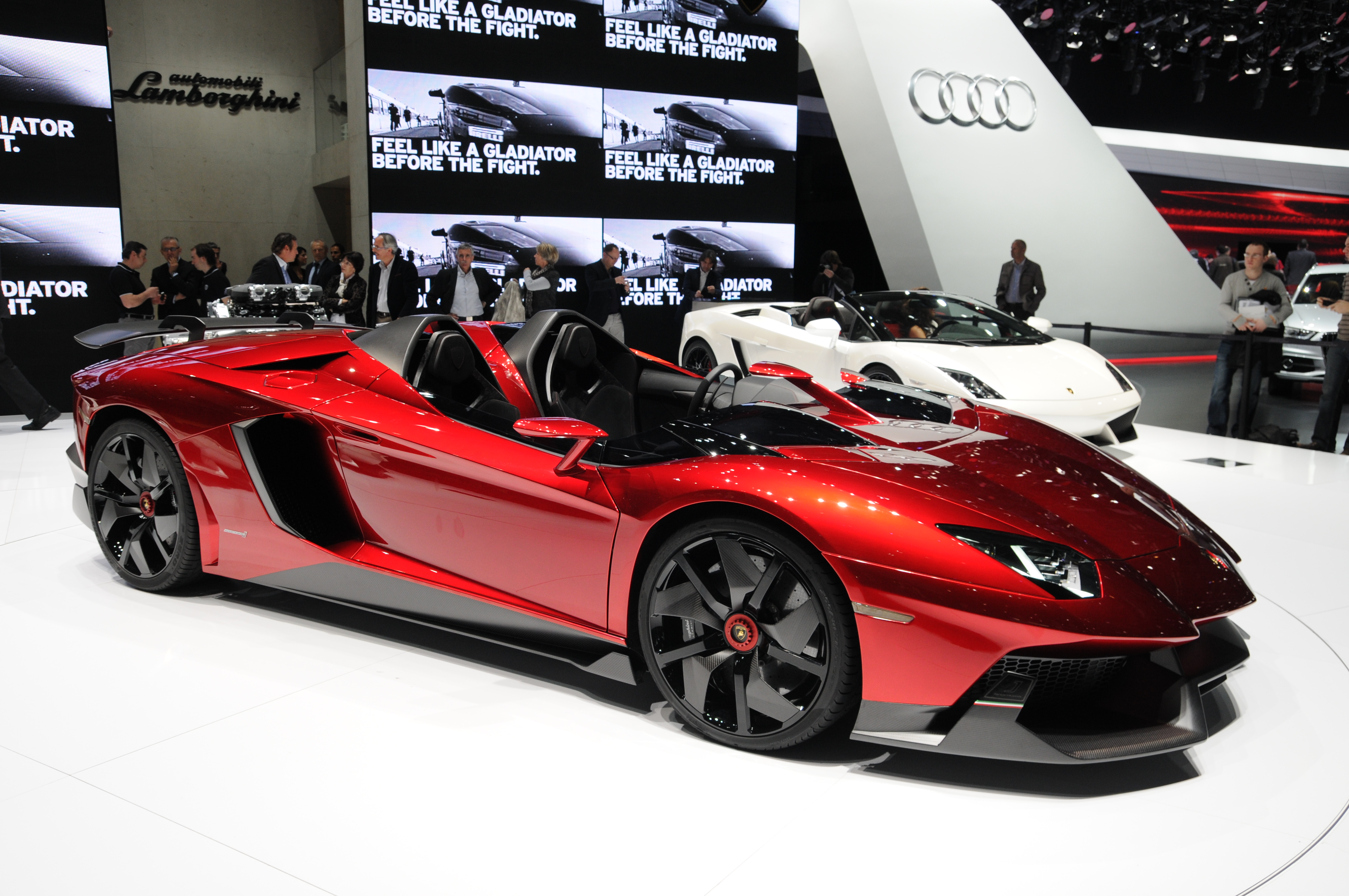 Geneva Motor Show 2012 (photos taken on the second press day)